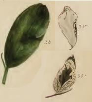 Stainton’s Natural History of the Tineina (1855–1873): Dialectica imperialella - mined leaves of Lathyrus niger (3b, 3b*, 3b**)